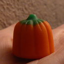 my own picture (icravepumpkins, user/author)